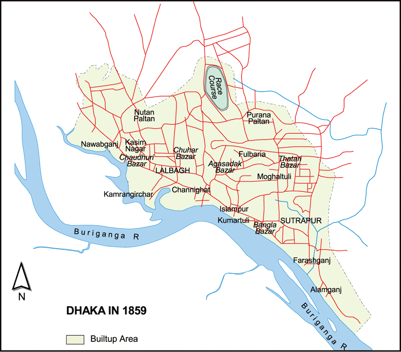 to understand the location